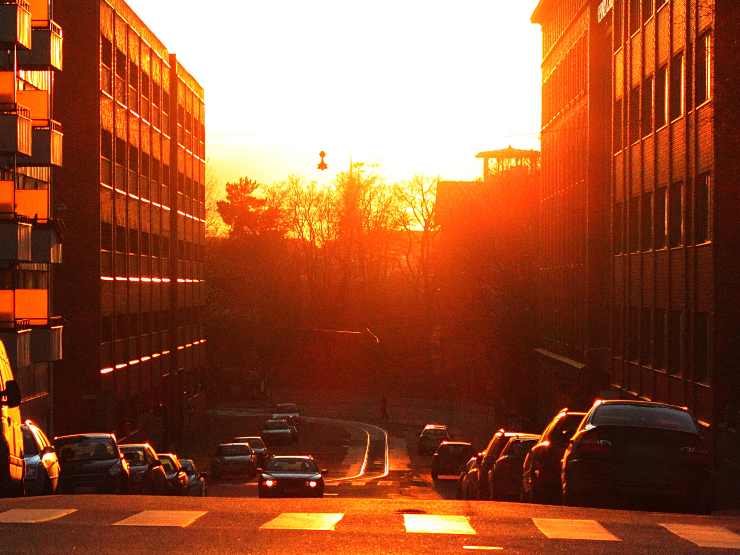 Alppikatu in Kallio, Helsinki, Finland during sunset. Late Fall 2011.